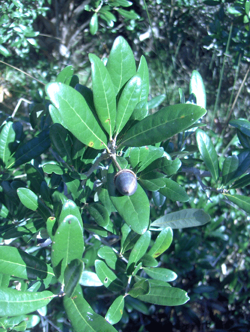 Sand Live Oak